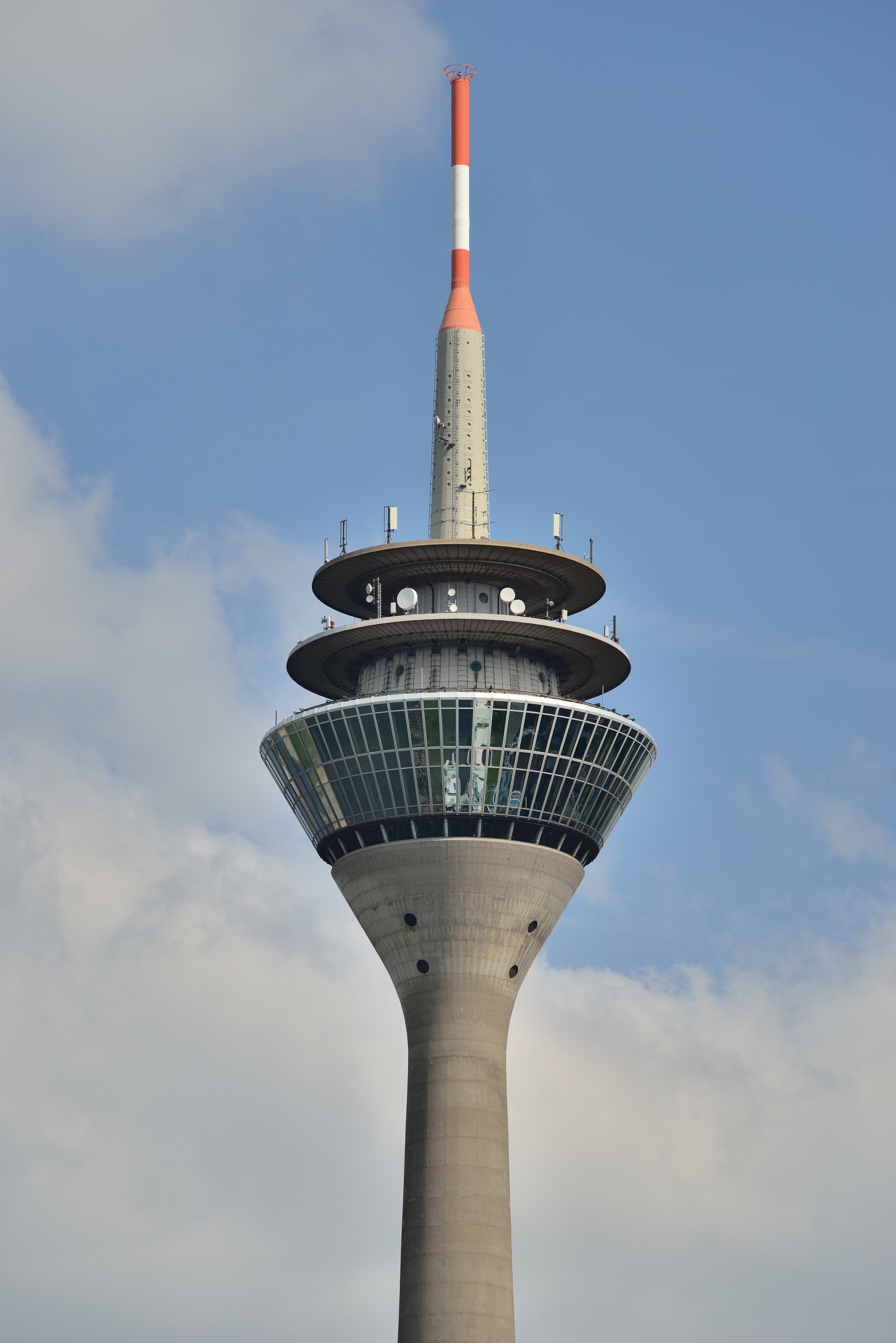 Düsseldorf: Rheinturm